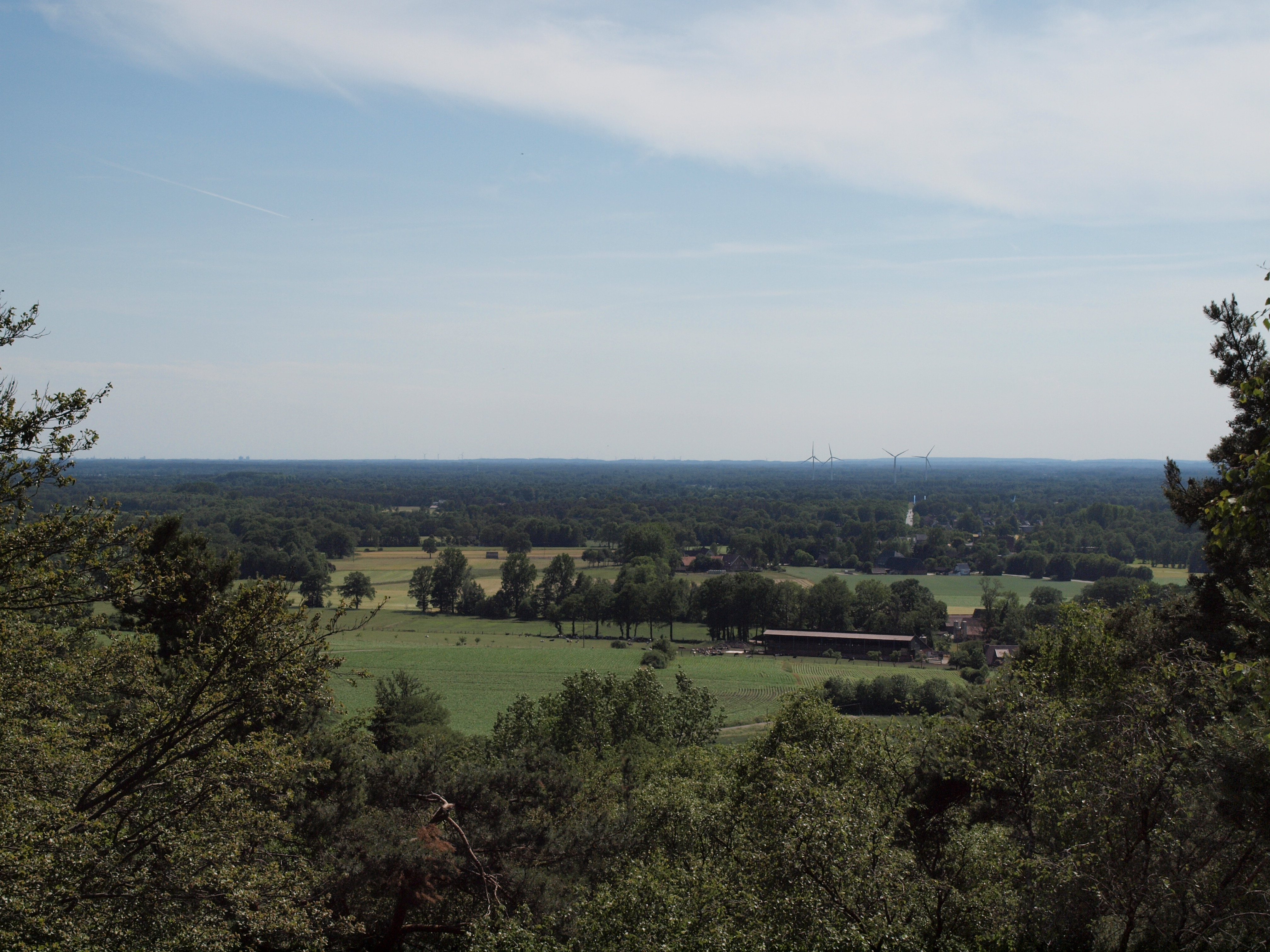 View from the Dörenthe cliffs into the back country